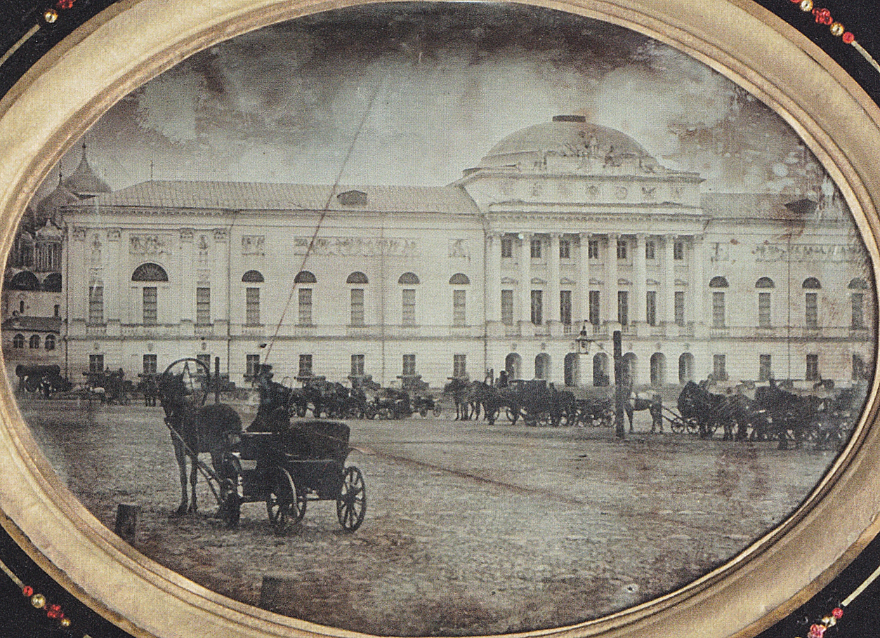 Daguerreotype photo of the old building of the Armoury chamber